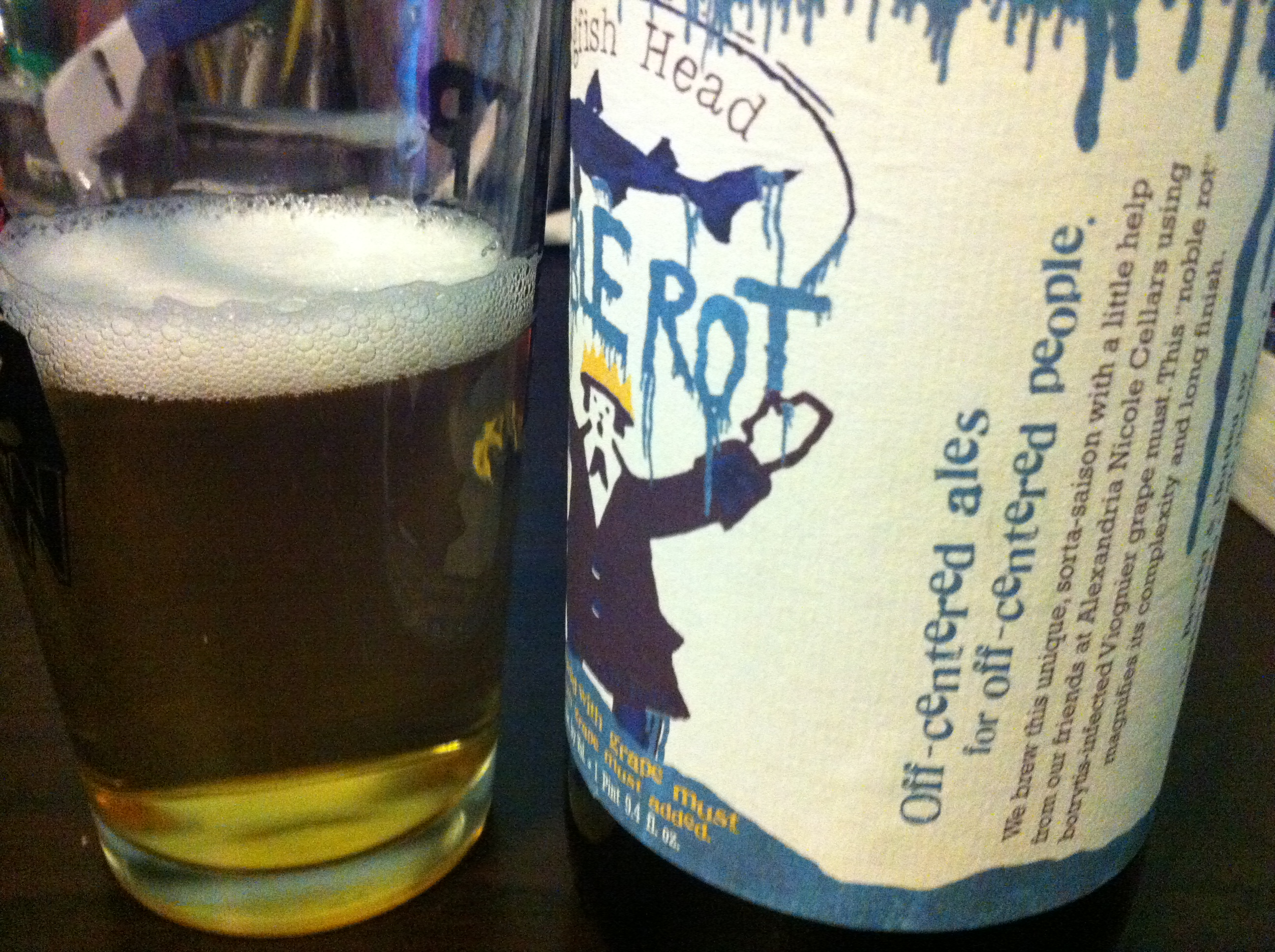 Beer made from DogFish Head with wine grapes provided by Washington wine producer Alexandria Nicole